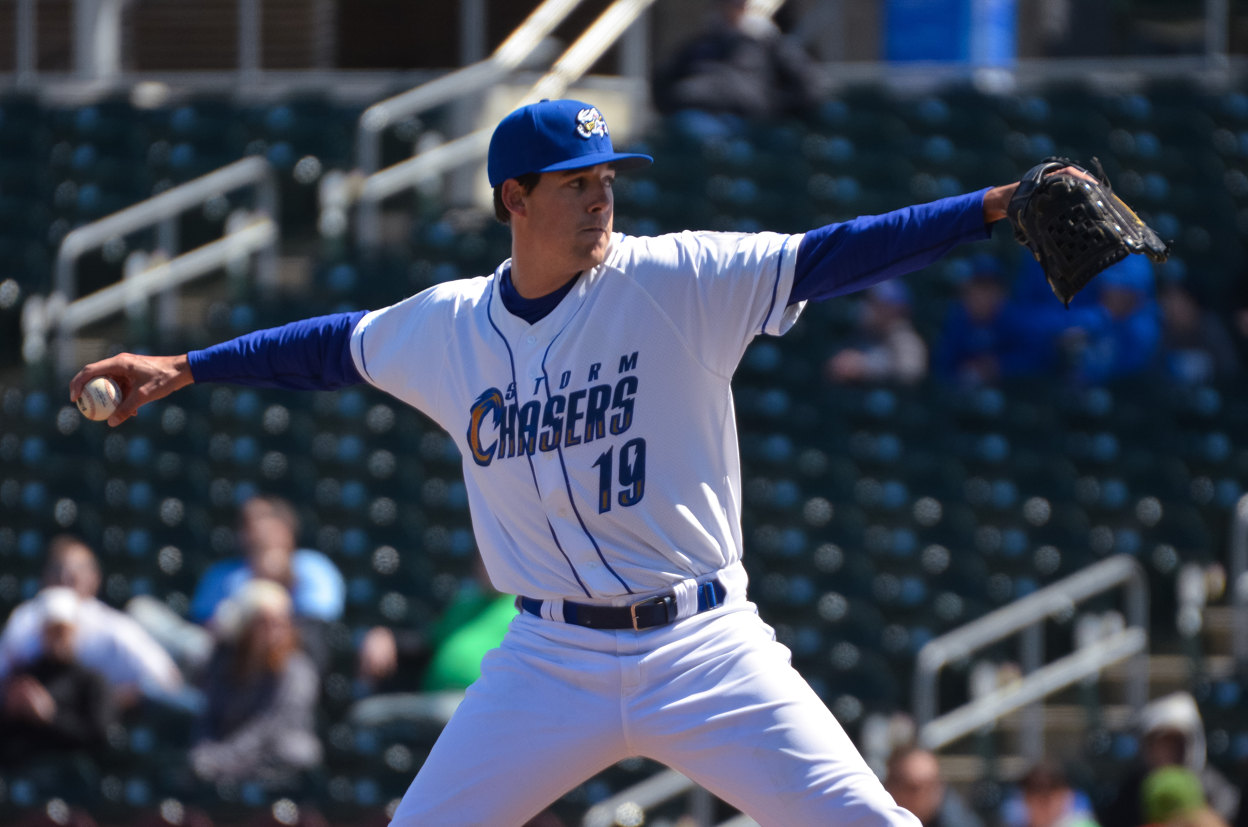 Luke Farrell delivers a pitch for the Omaha Storm Chasers at Werner Park in Omaha in 2016.